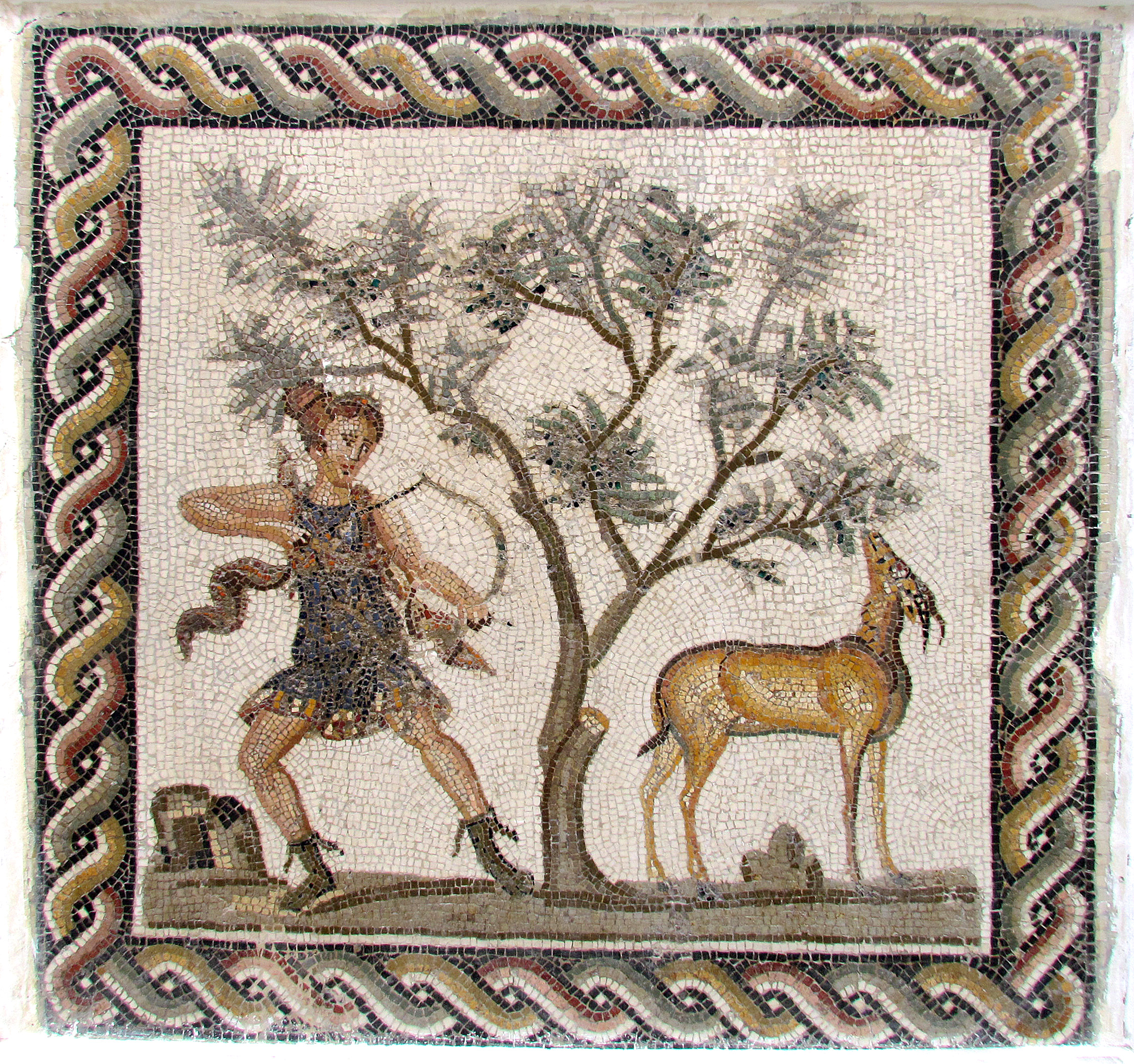 Diana and doe mosaic (Bardo Museum)